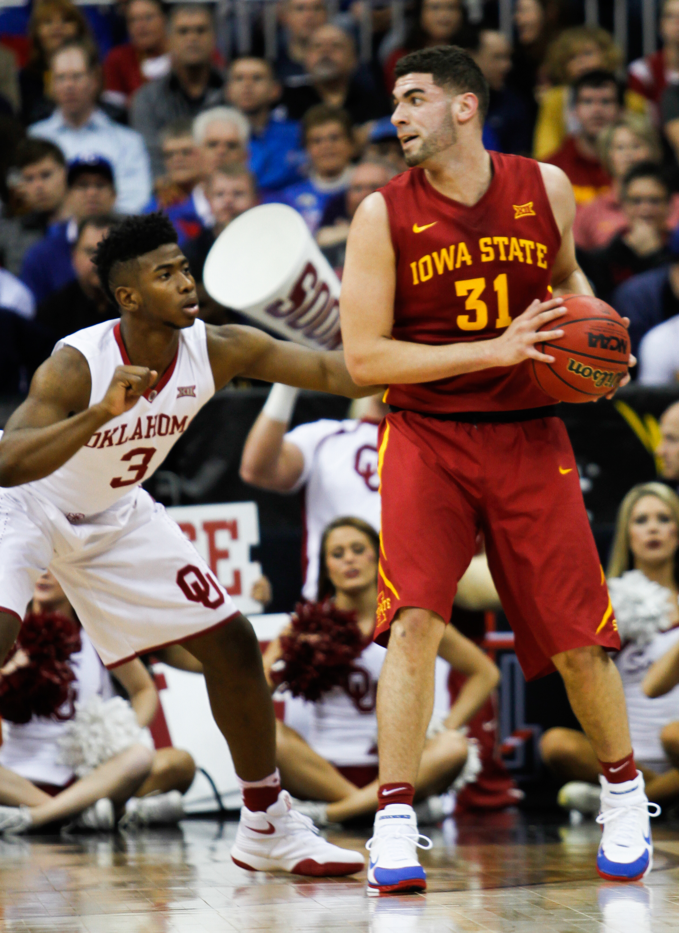 After being down at halftime, the Cyclones fought back, but fell short in their first game of the Big 12 Championship, losing to the Oklahoma Sooners 79-76.